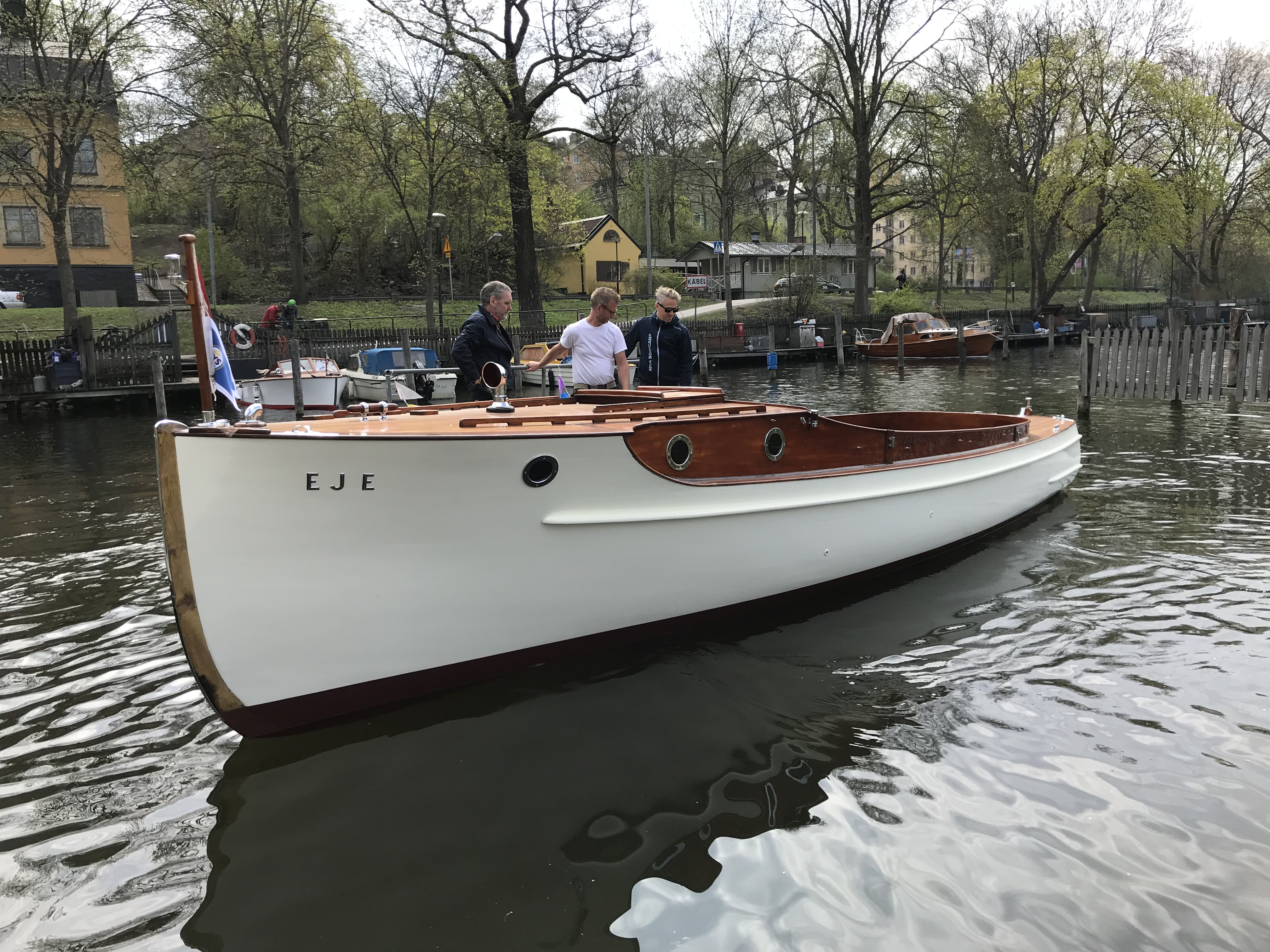 M/Y Eje from around 1932-1936 designed by C G Pettersson, April 27, 2019